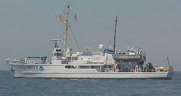 The National Oceanic and Atmospheric Administration survey ship NOAAS Whiting (S 329)